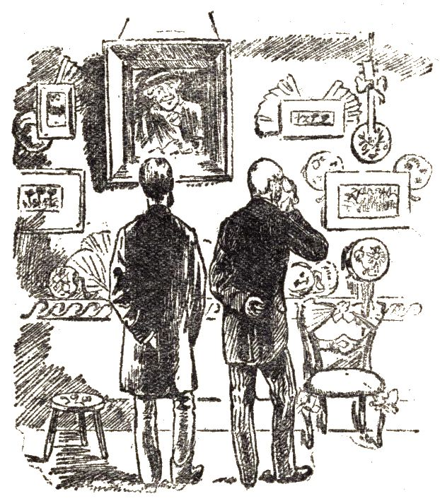 jpg of image on print page 201 of File:Diary of a Nobody.djvu